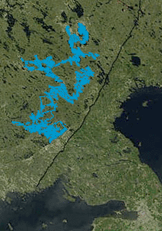 Saimaa marked on satellite photo